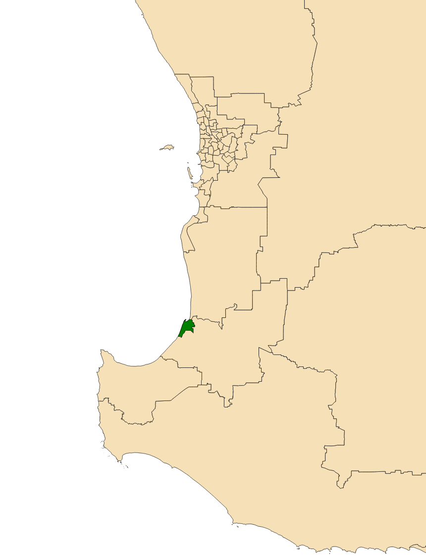 Location of the electoral district of Bunbury south of the Perth metropolitan area, Western Australia as of the 2017 WA state election.